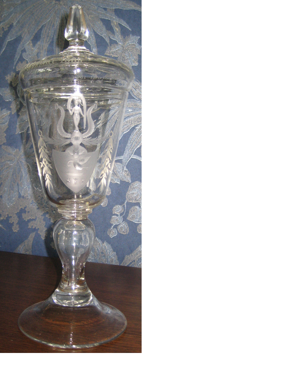 Cappelen coat of arms 1886